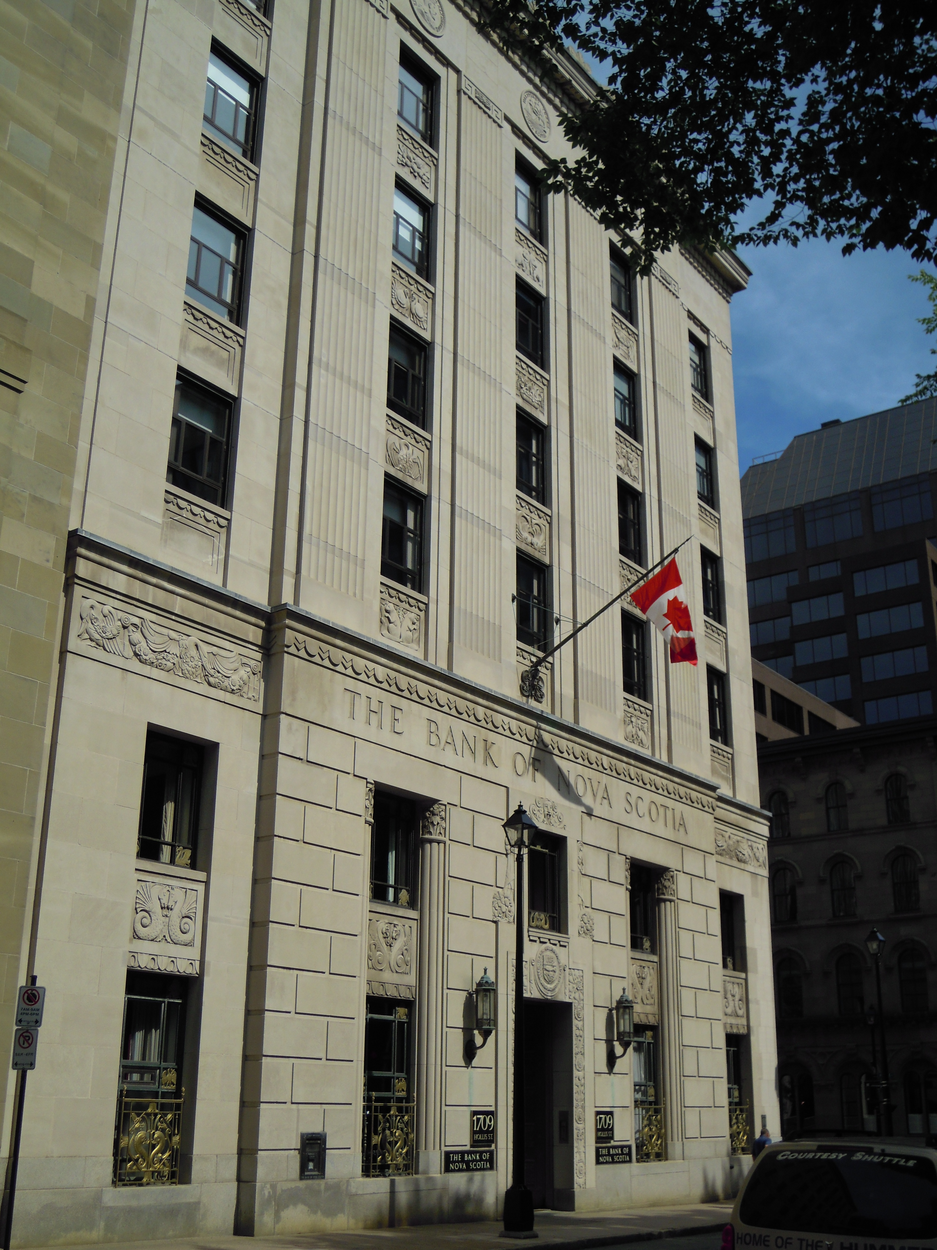 The historic Bank of Nova Scotia head office and Halifax main branch at 1709 Hollis Street, Halifax, Nova Scotia, Canada, designed by John Lyle.